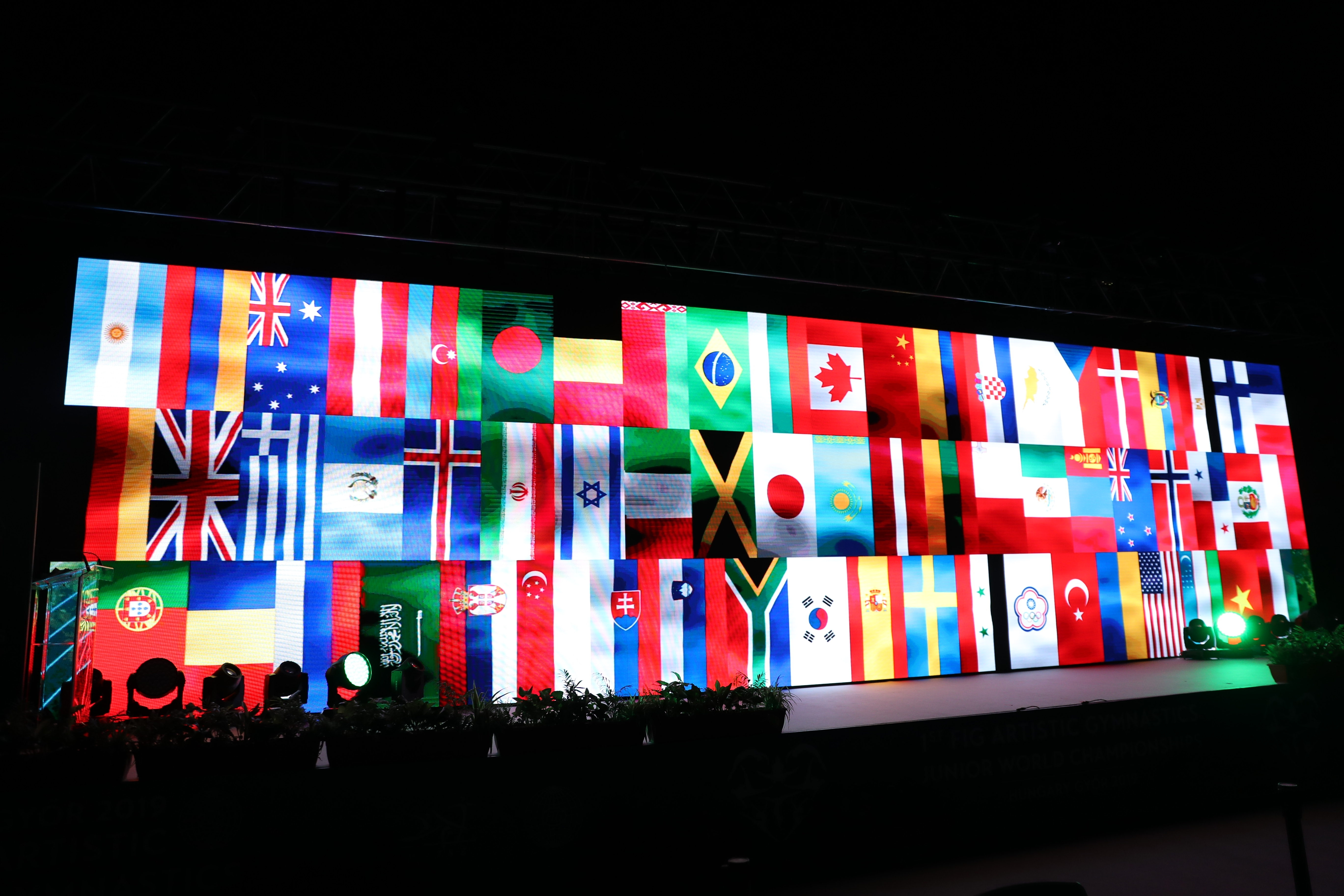 Impressions from the opening ceremony at the 1st FIG Artistic Gymnastics Junior World Championships on 27 June 2019 in Győr, Hungary.